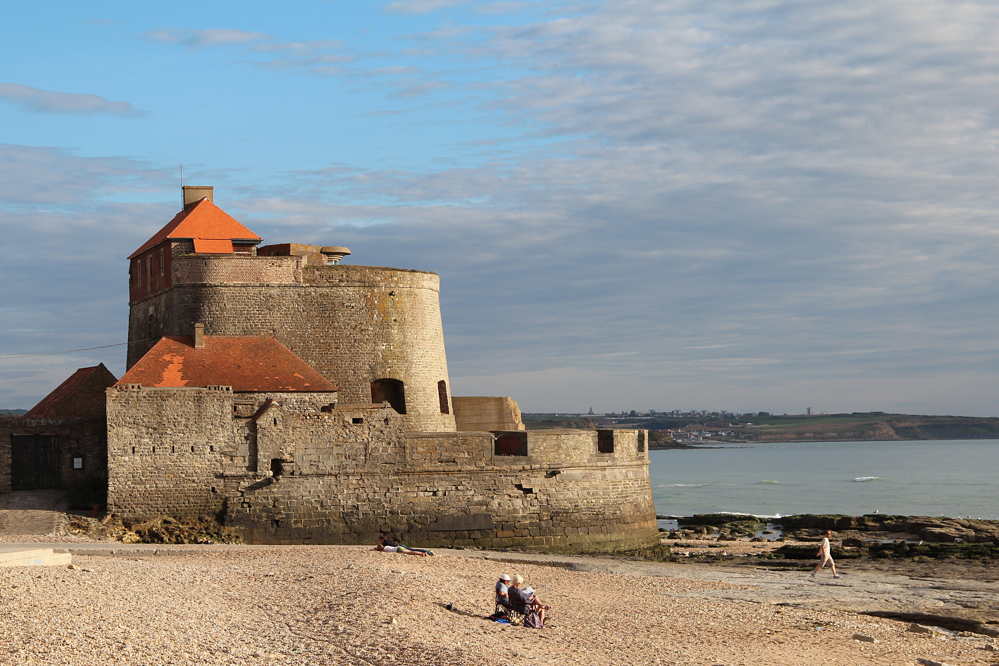 The fort Mahon in Ambleteuse (Pas-de-Calais).